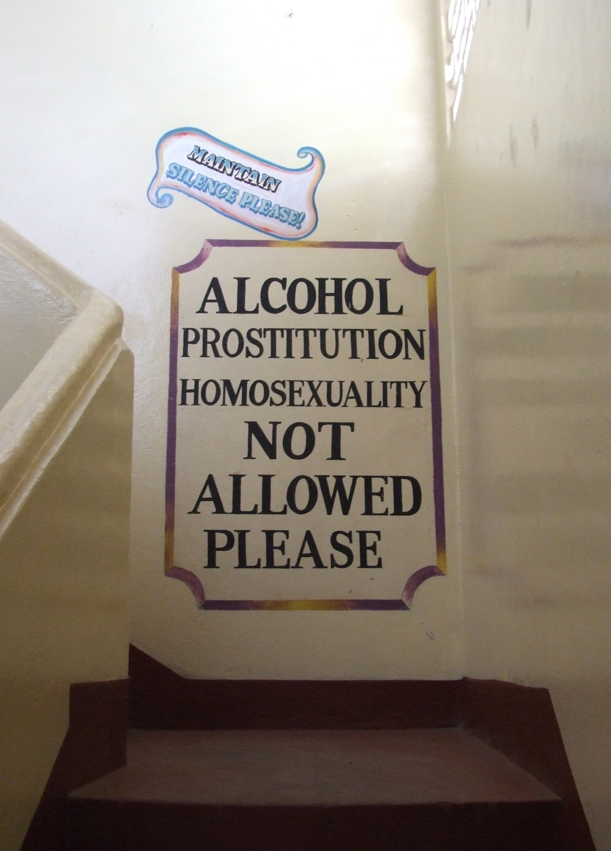 House rules in a guest house in Malindi